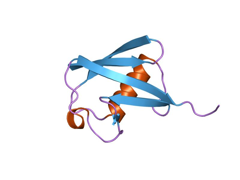 Cartoon representation of the molecular structure of protein registered with 1ubq code.